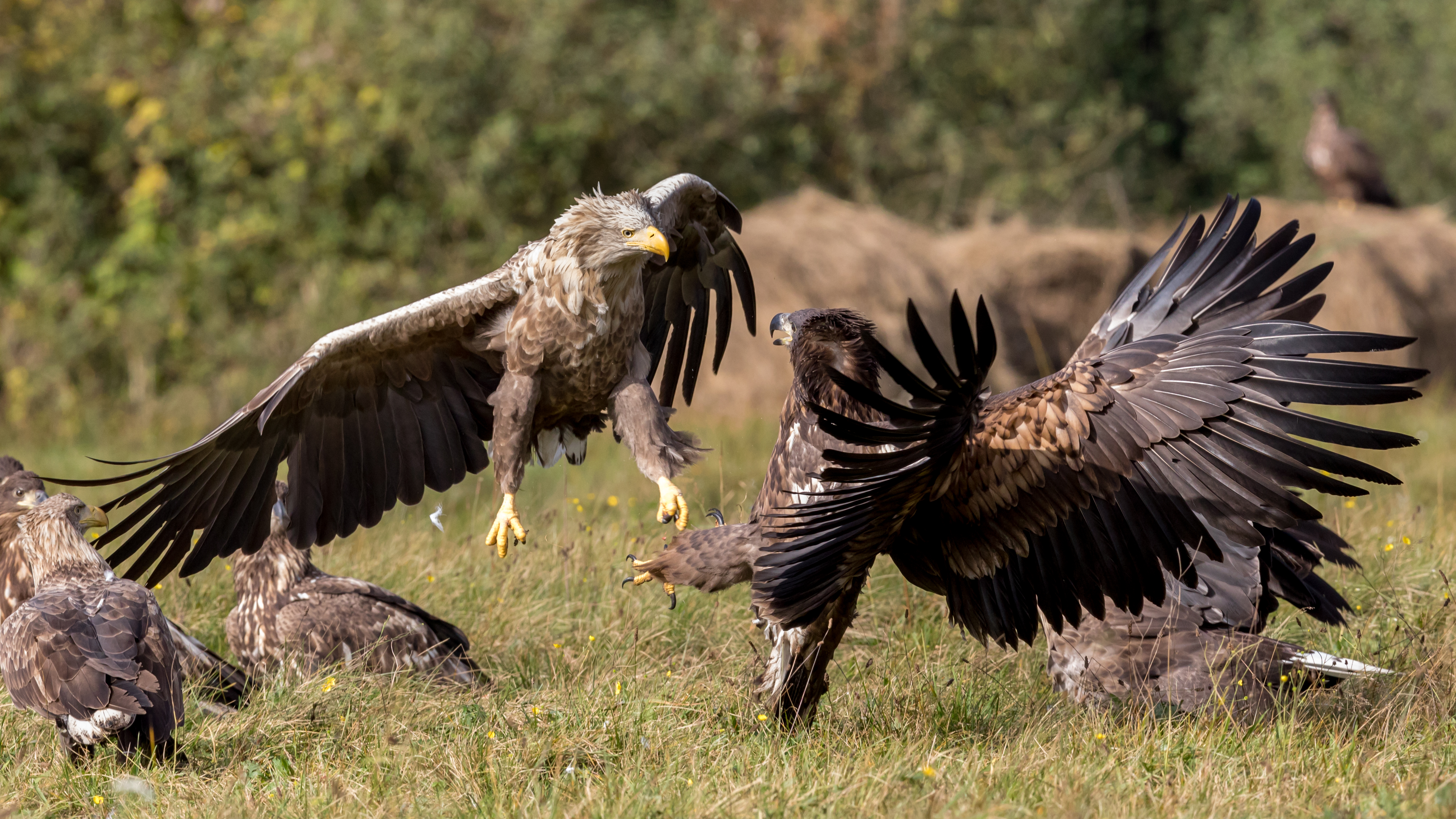 In the Gostynin-Wloclawek nature reserve several white-tailed eagles overwinter; this is a natural habitat for these gigantic birds. The number of eagles in this habitat is high enough to observe occasional aggressive wranglings over some prey.